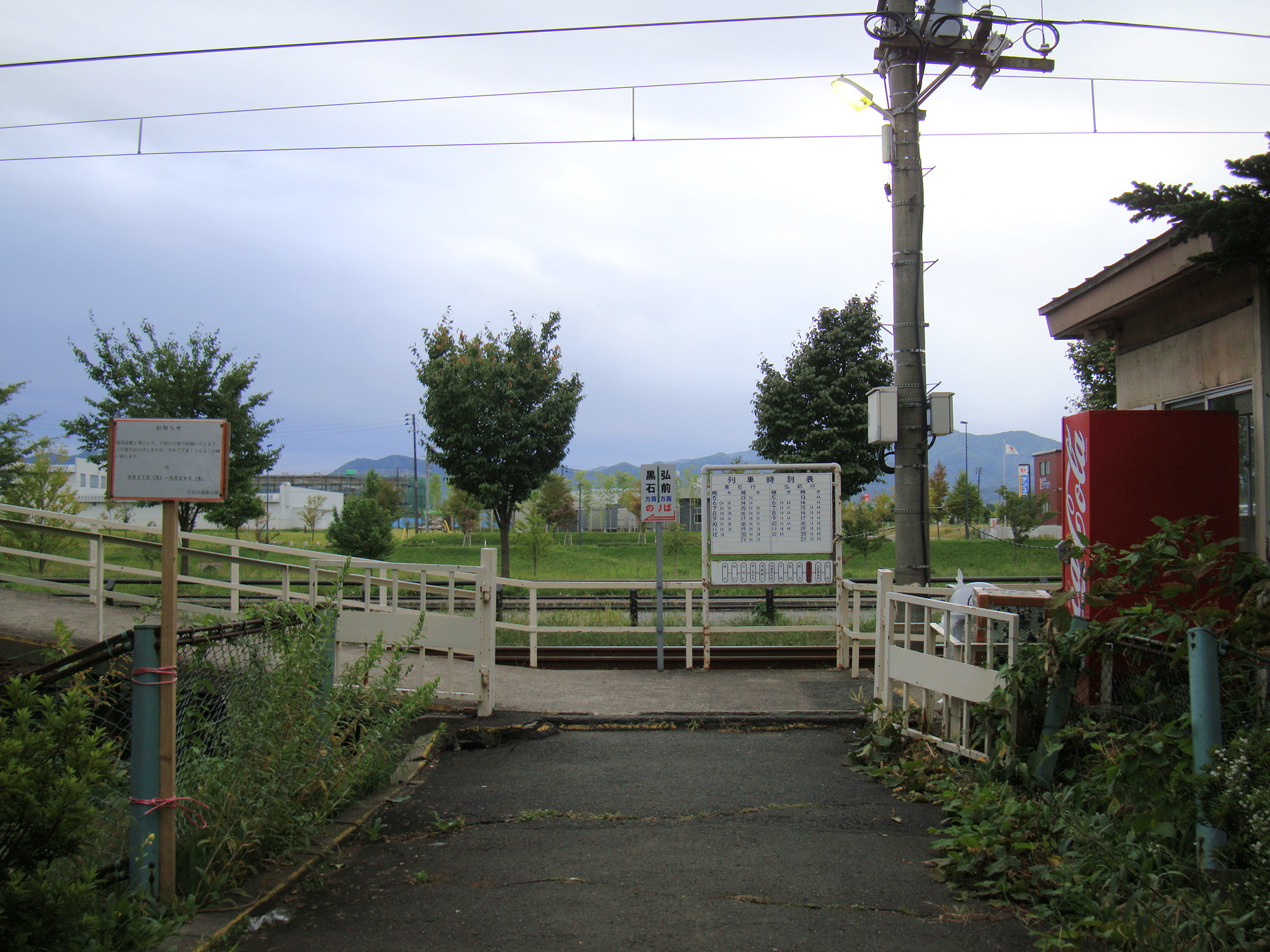 Undō Kōen-mae Station